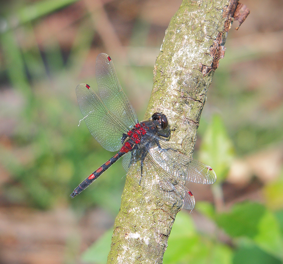 Ruby whiteface (Leucorrhinia rubicunda) in The Netherlands